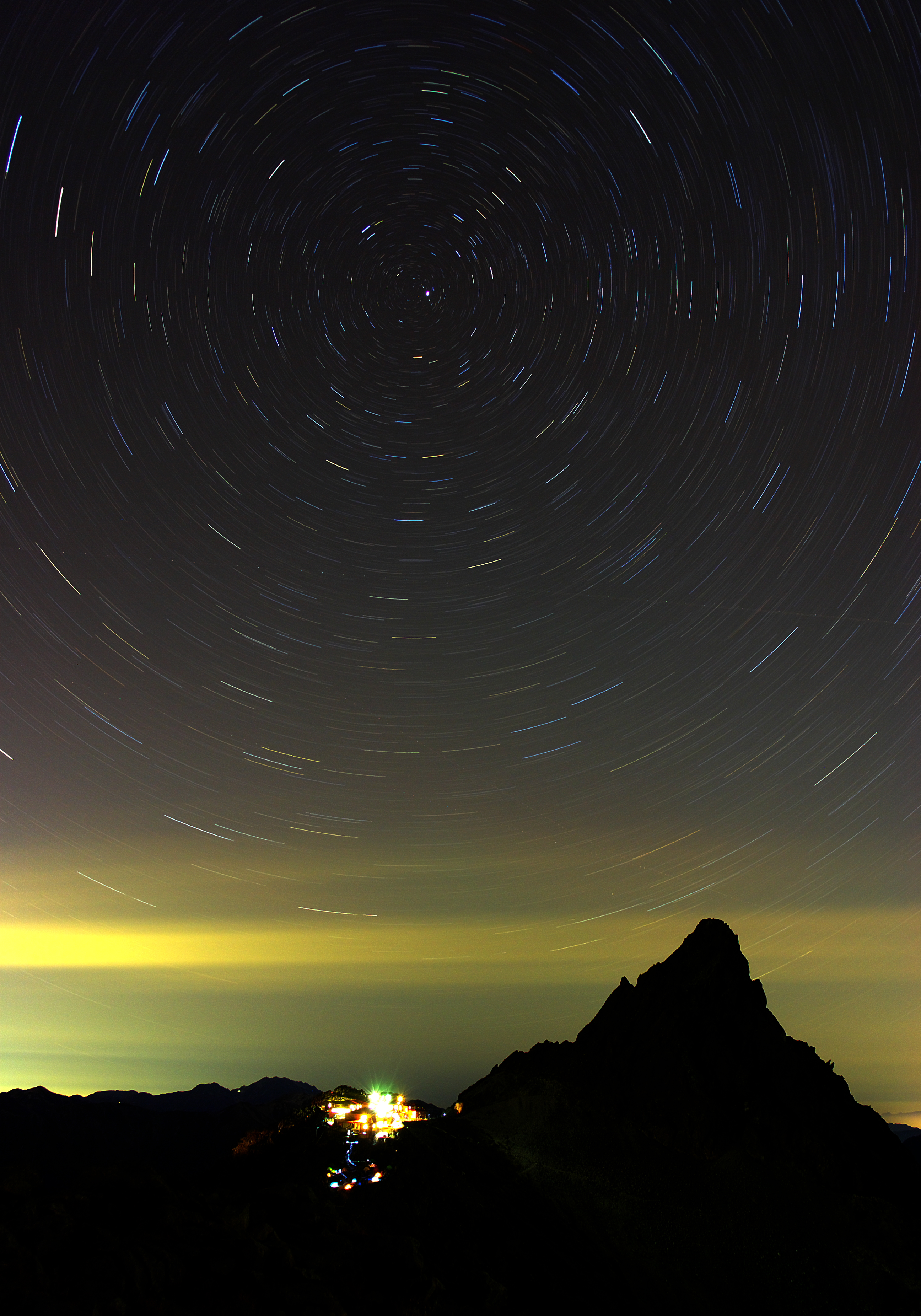 Diurnal motion of the northern sky and Yarigatake. Taken at the summit of Obamidake.